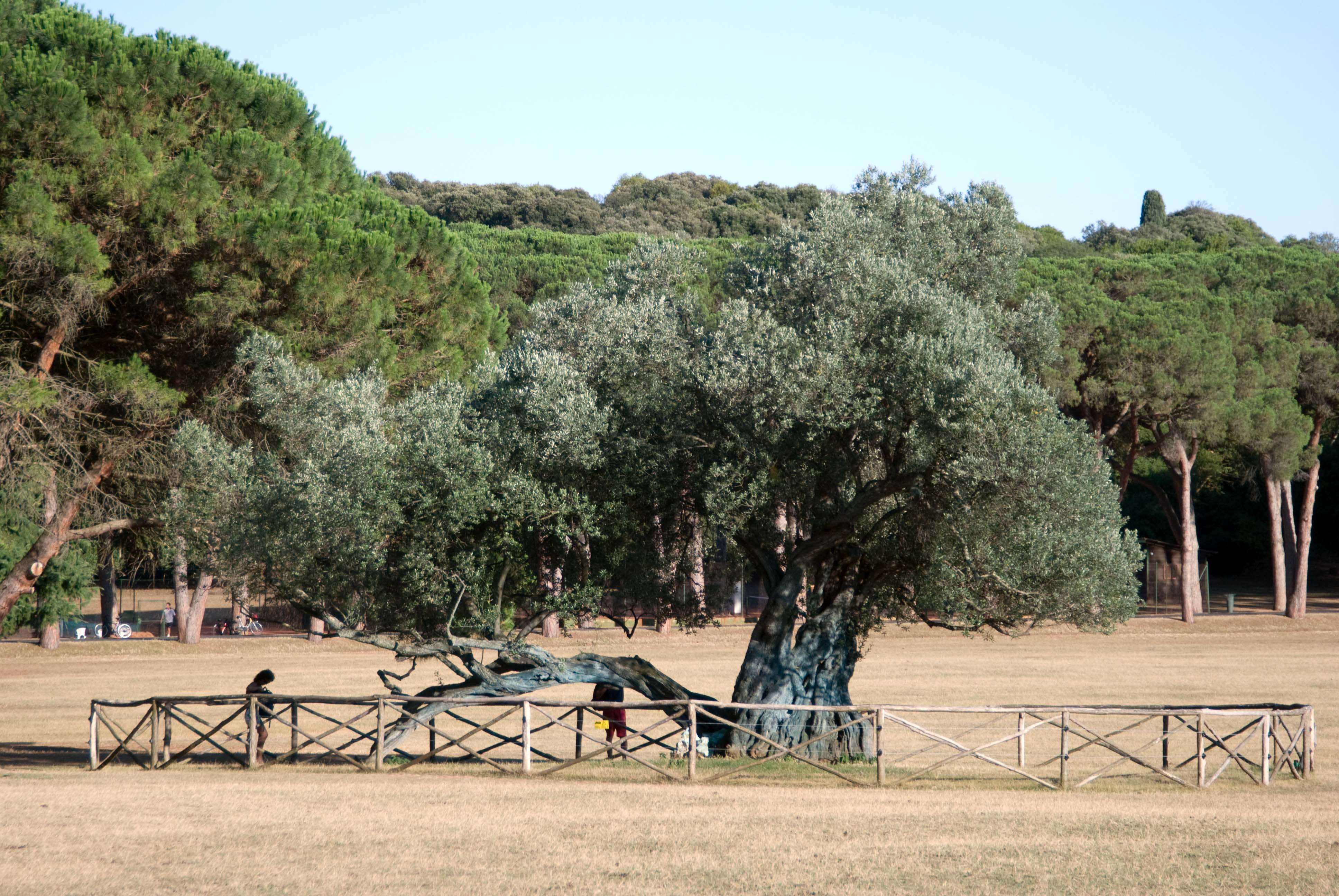 1600 year old olive tree on Brijuni, Croatia